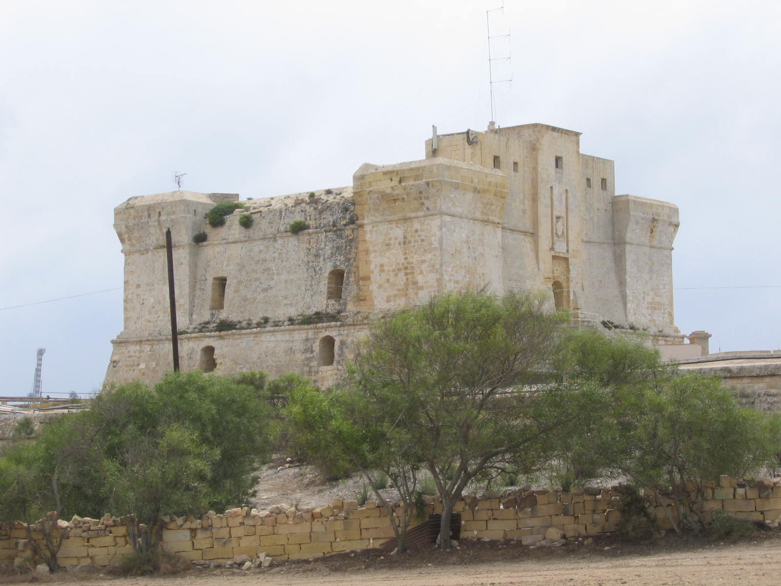 St Lucians Tower, Marsaxlokk, Malta. North aspect. Copyright H.J Moyes Sept 2005. All Rights Reserved